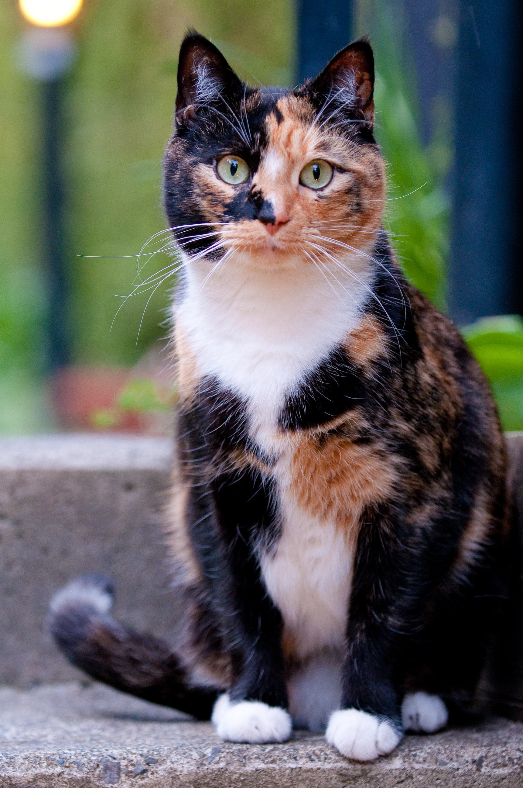 My neighbour's cat. Easily the most social cat I know, she always stops by for a visit whenever we leave or come back to our place. Probably cause she knows she'll always get a nice tummy rub, which usually makes it difficult to get a good shot but this time I managed to get a 5 second pose out of her.